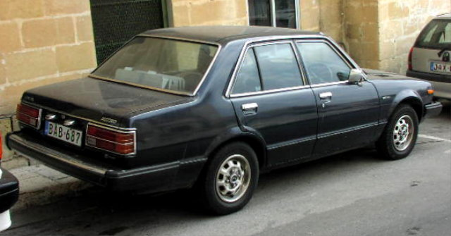 Honda Accord Sedan 1st Generation